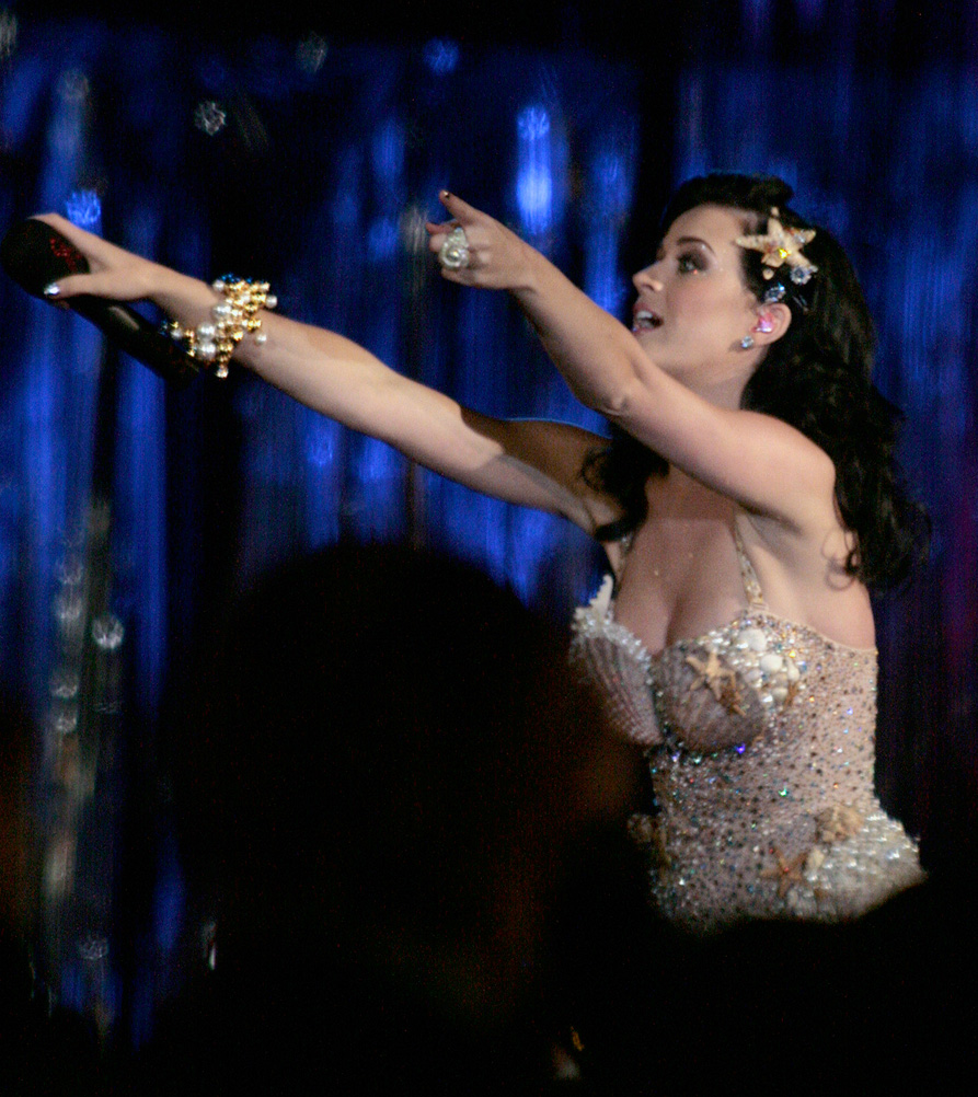 Katy Perry at the Life Ball 2009, Rathaus, Vienna.